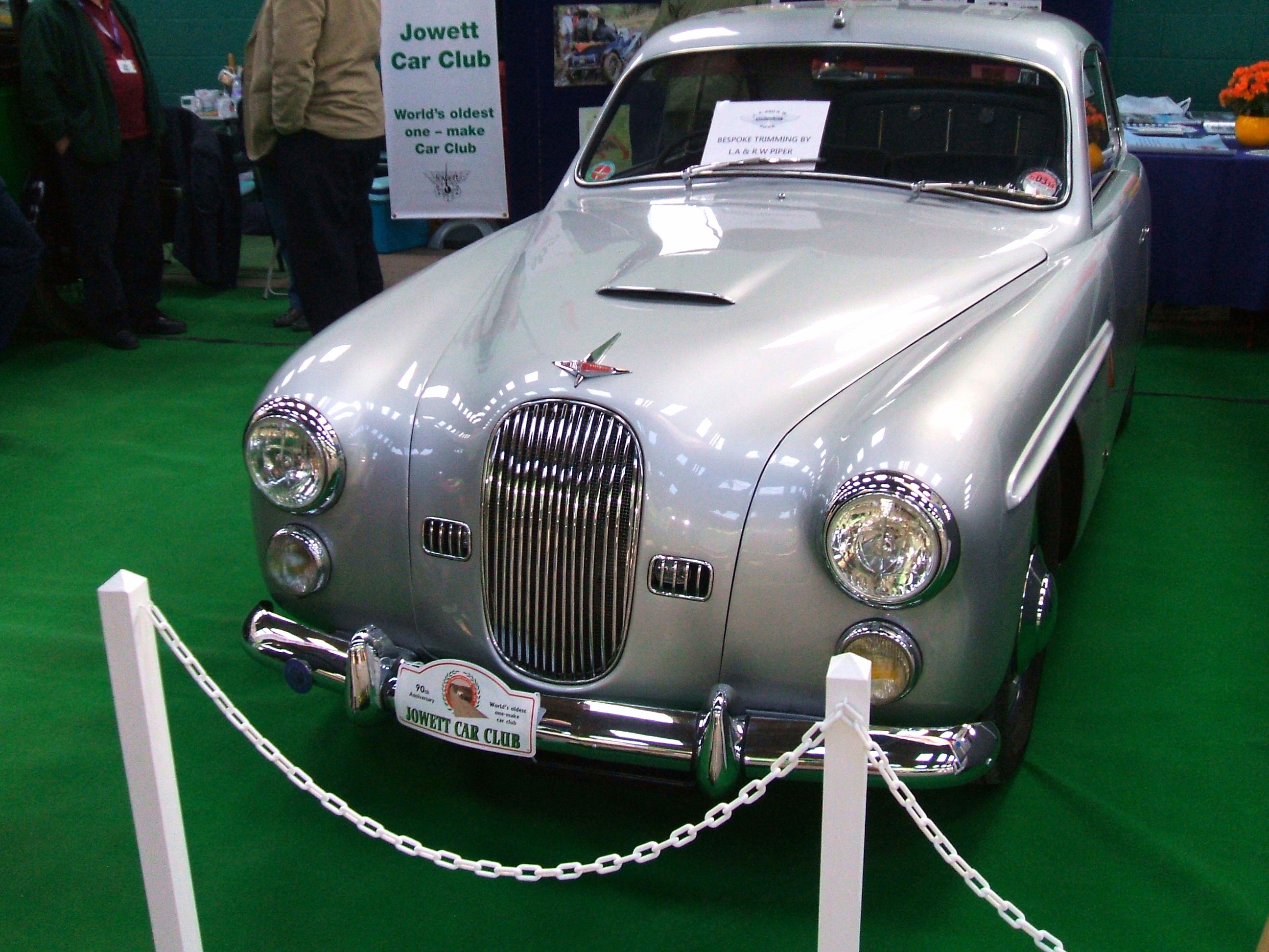 Jowett Jupiter 109 by Farina 1950/1951 Footman James Bristol Classic Car Show 20th April 2013